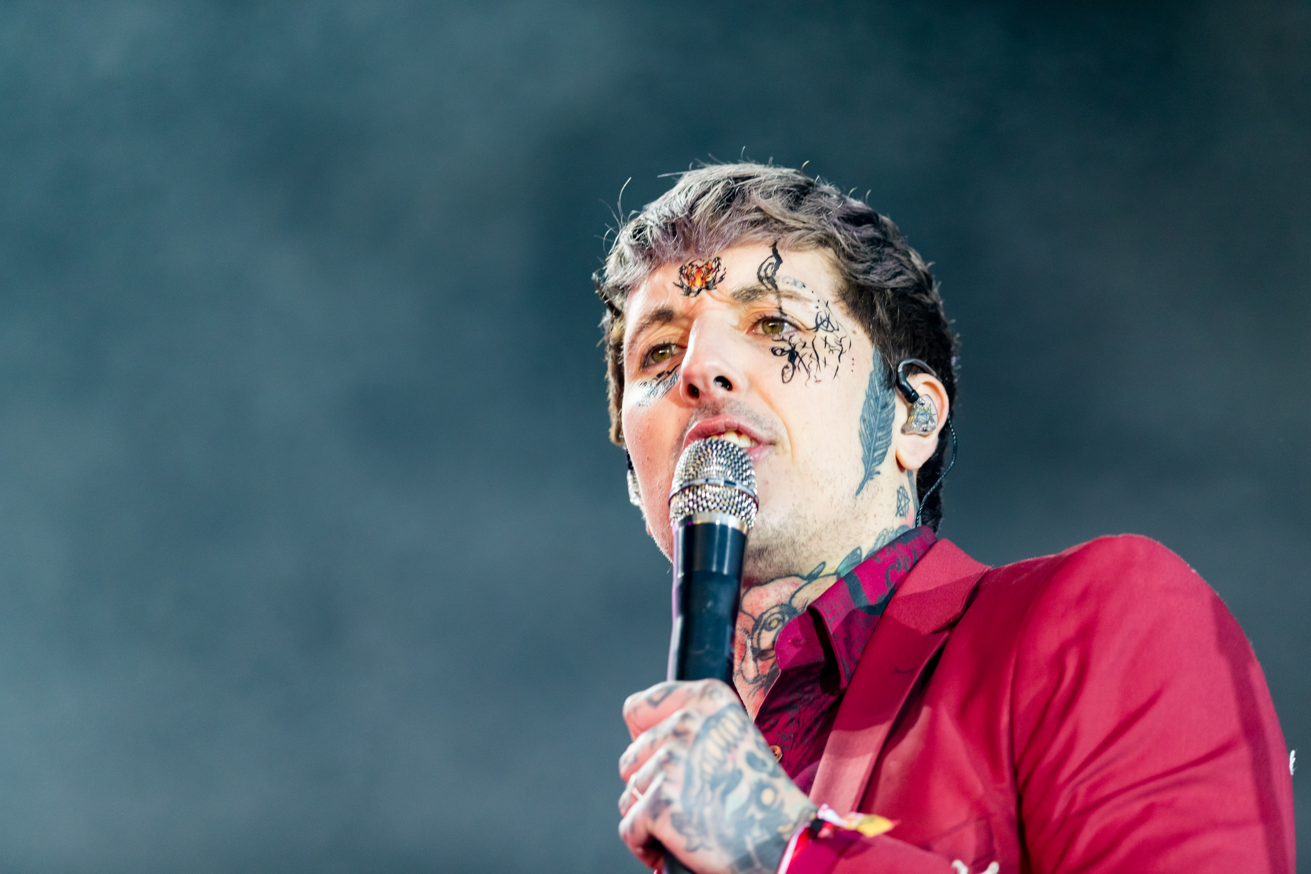 Bring me the Horizon during Rock am Ring ( at Nürburgring, Rheinland-Pfalz, Germany on 2019-06-08, Photo: Sven Mandel Promotion by Live Nation (